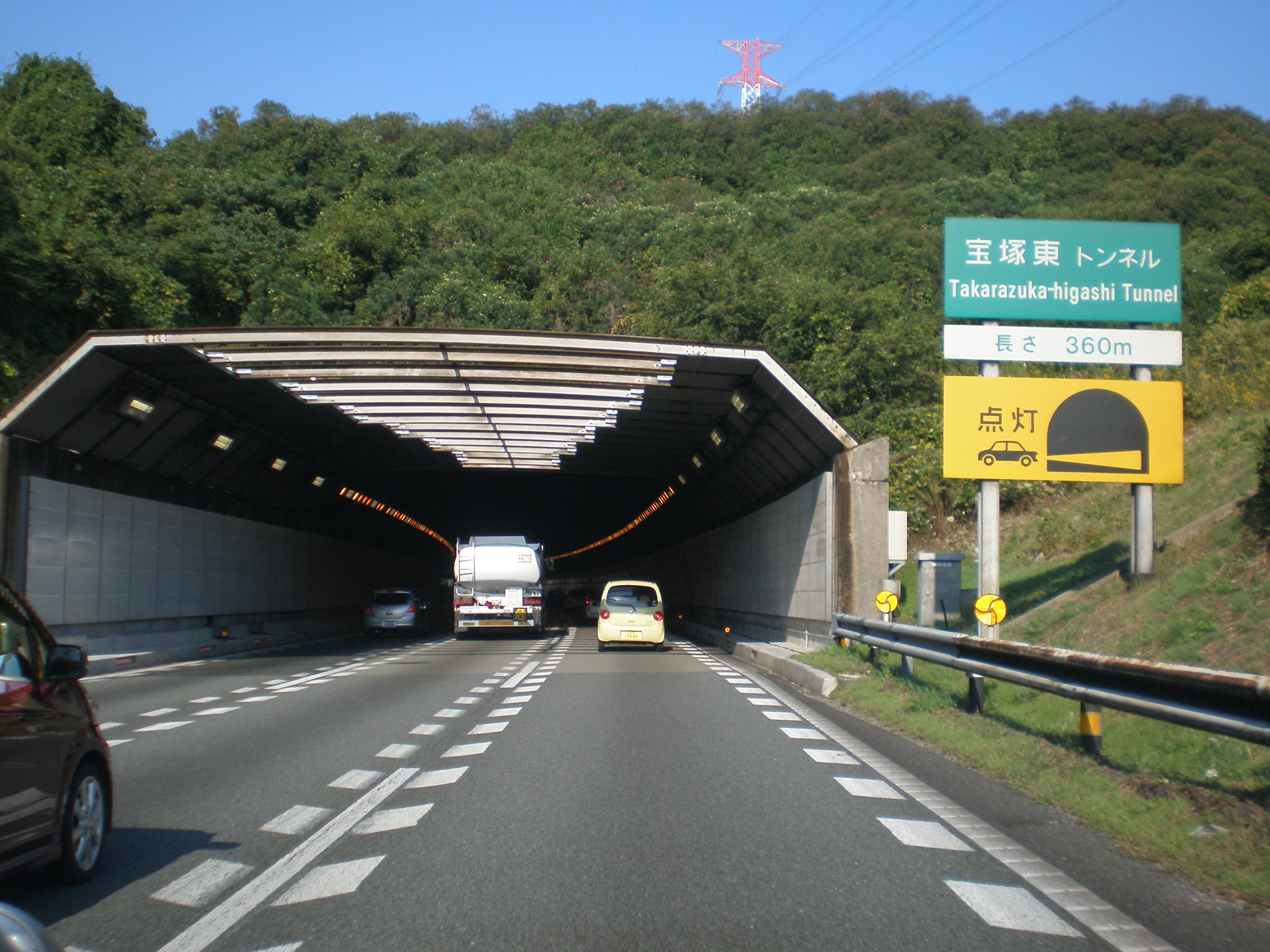 Outbound line and Takarazuka east tunnel